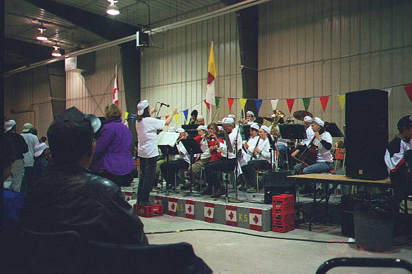 Canada Day celebrations in Iqaluit, 1999.